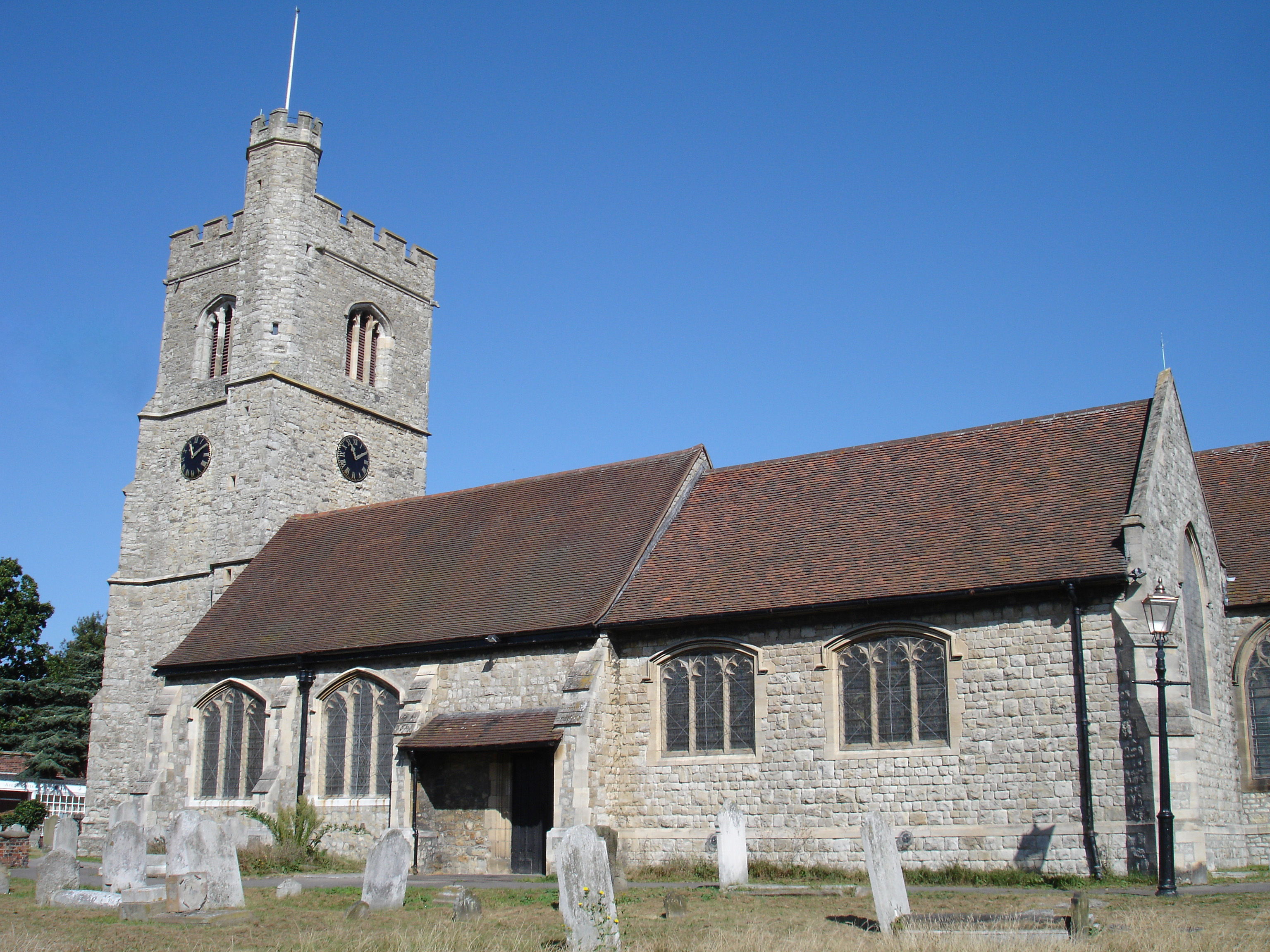 Photograph of St Clement's Church, Leigh-on-Sea, Essex, England